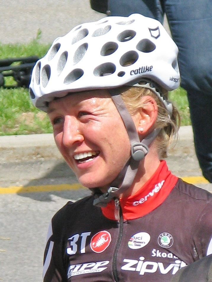 British cyclist Emma Pooley, riding for Cervélo TestTeam, seconds after having won La Coupe du Monde Cycliste Féminine de Montréal, March 31, 2009.